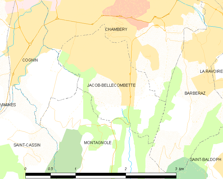 Map of French municipality